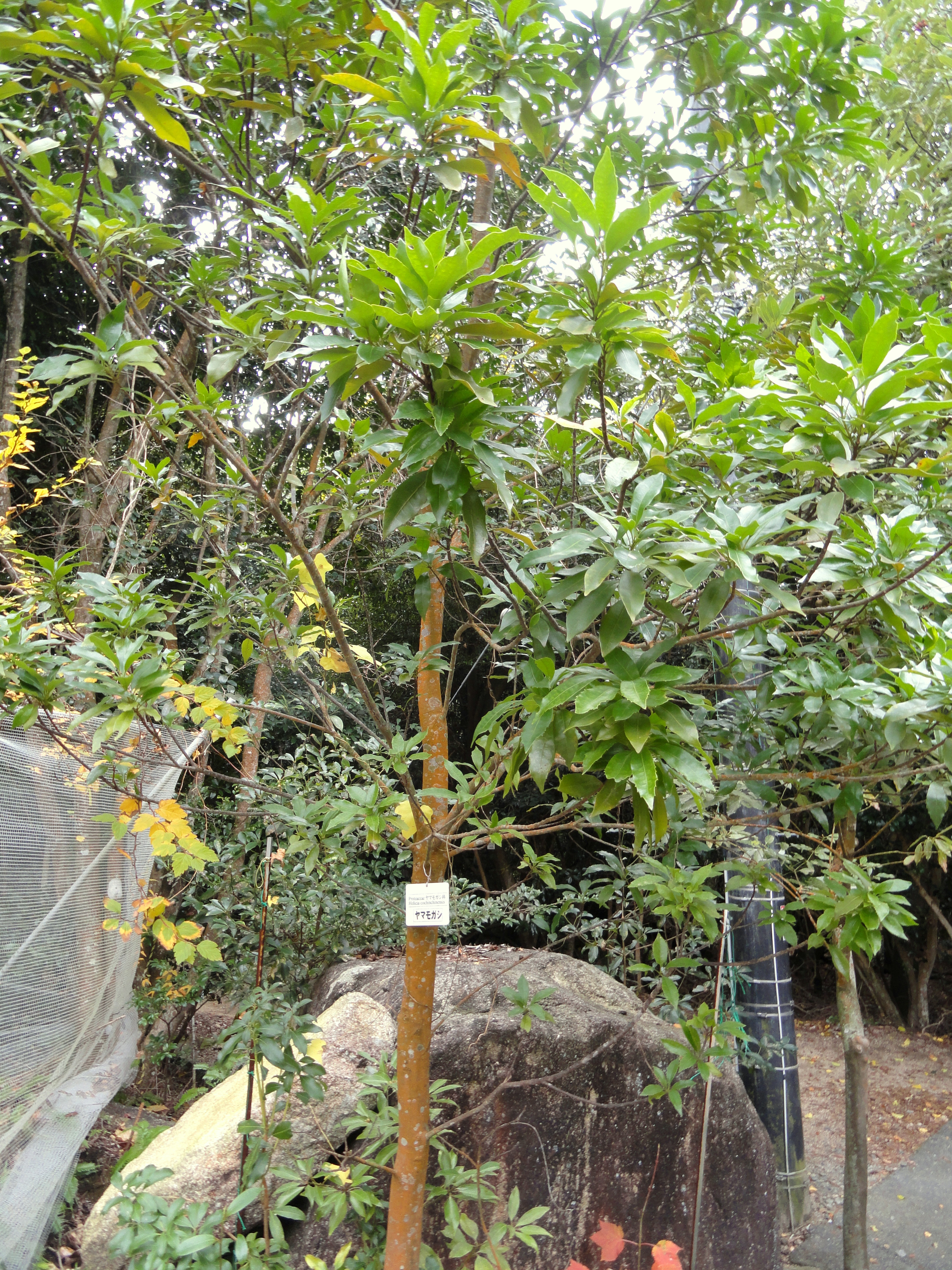 Botanical specimen in the Miyajima Natural Botanical Garden, Hatsukaichi, Hiroshima, Japan.